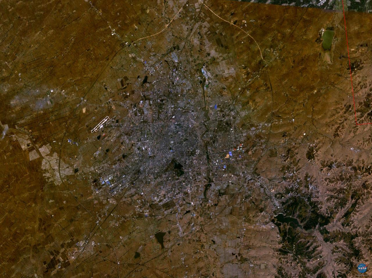 Changchun, Jilin, China